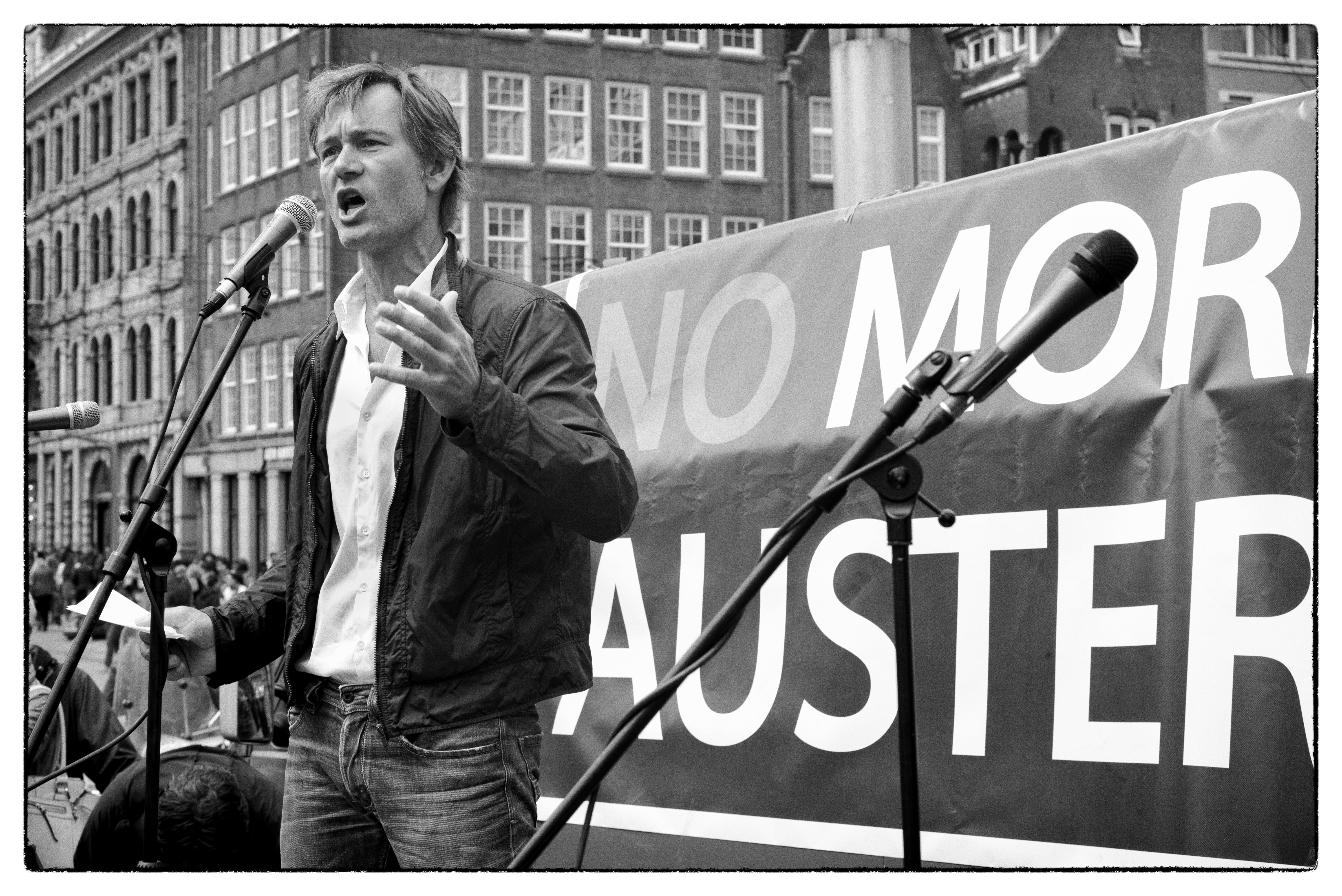 Ewald Engelen at the "Reinform Greek solidarity rally"